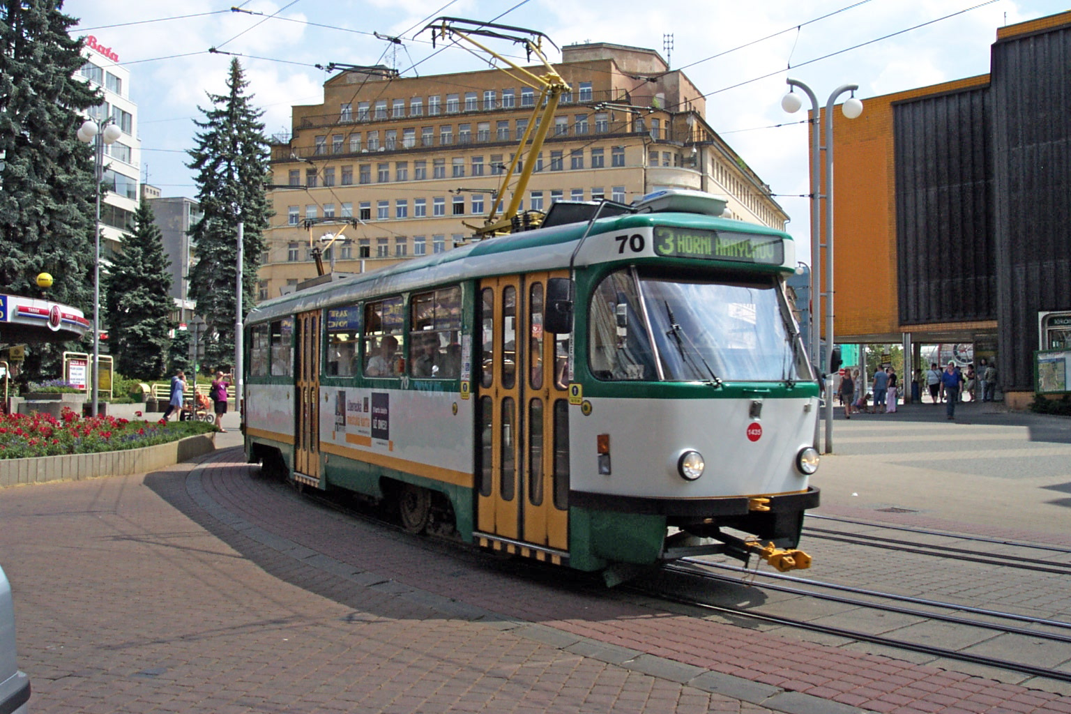 Tram in the very center of Liberec, on the Soukenné náměstí square near former Ještěd department store, now demolished, yet in the time of this picture existing